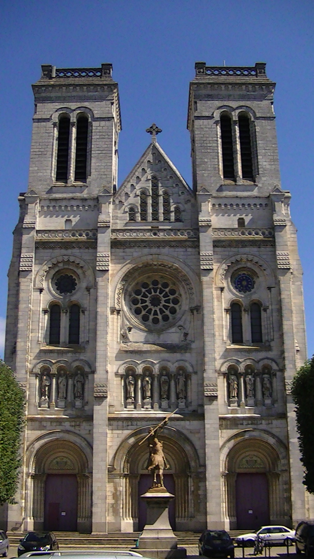 Facade of the Basilica of Sts. Donatian and Rogatian, Nantes